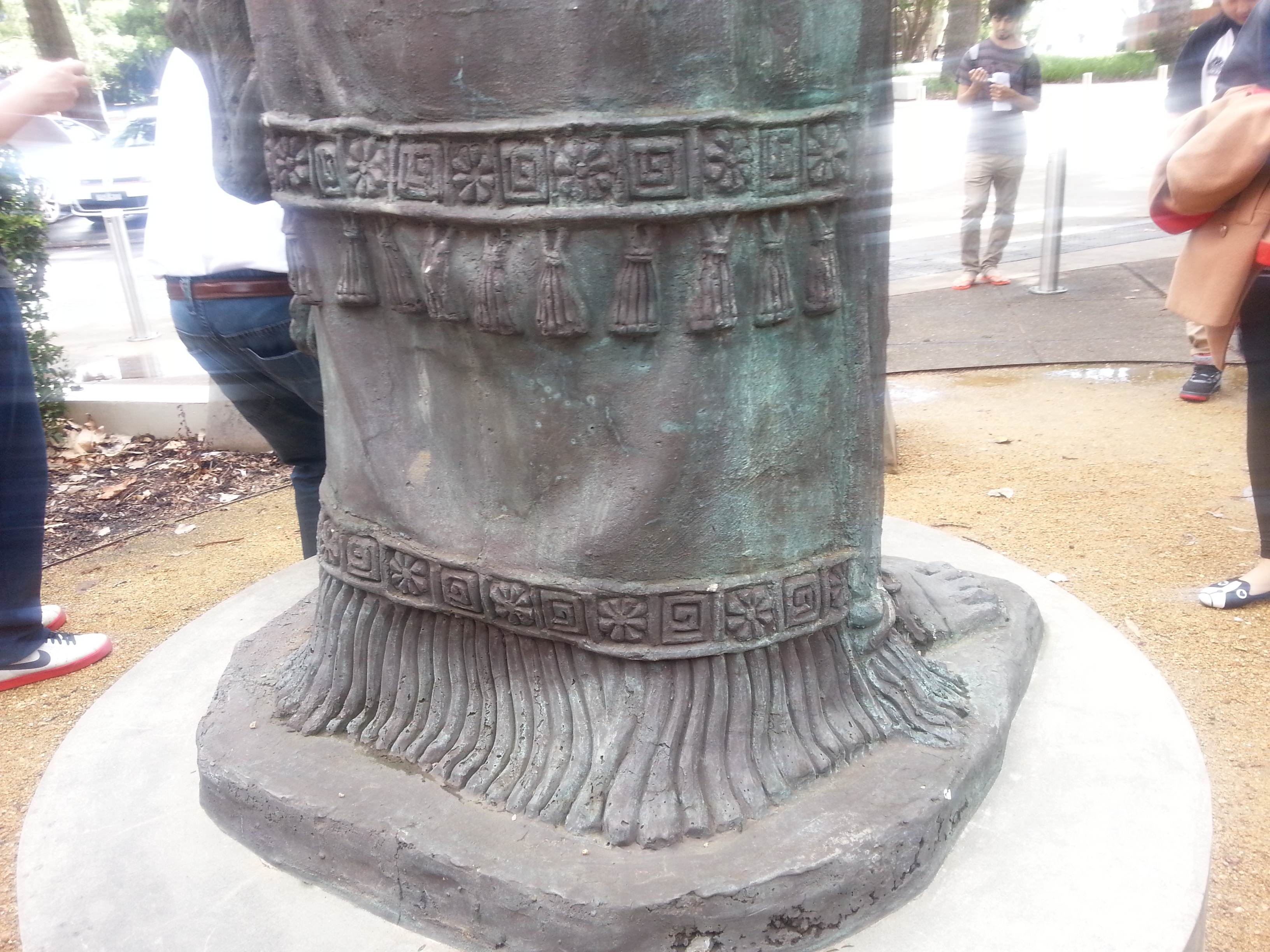 Gilgamesh outfit as a robe style with frills